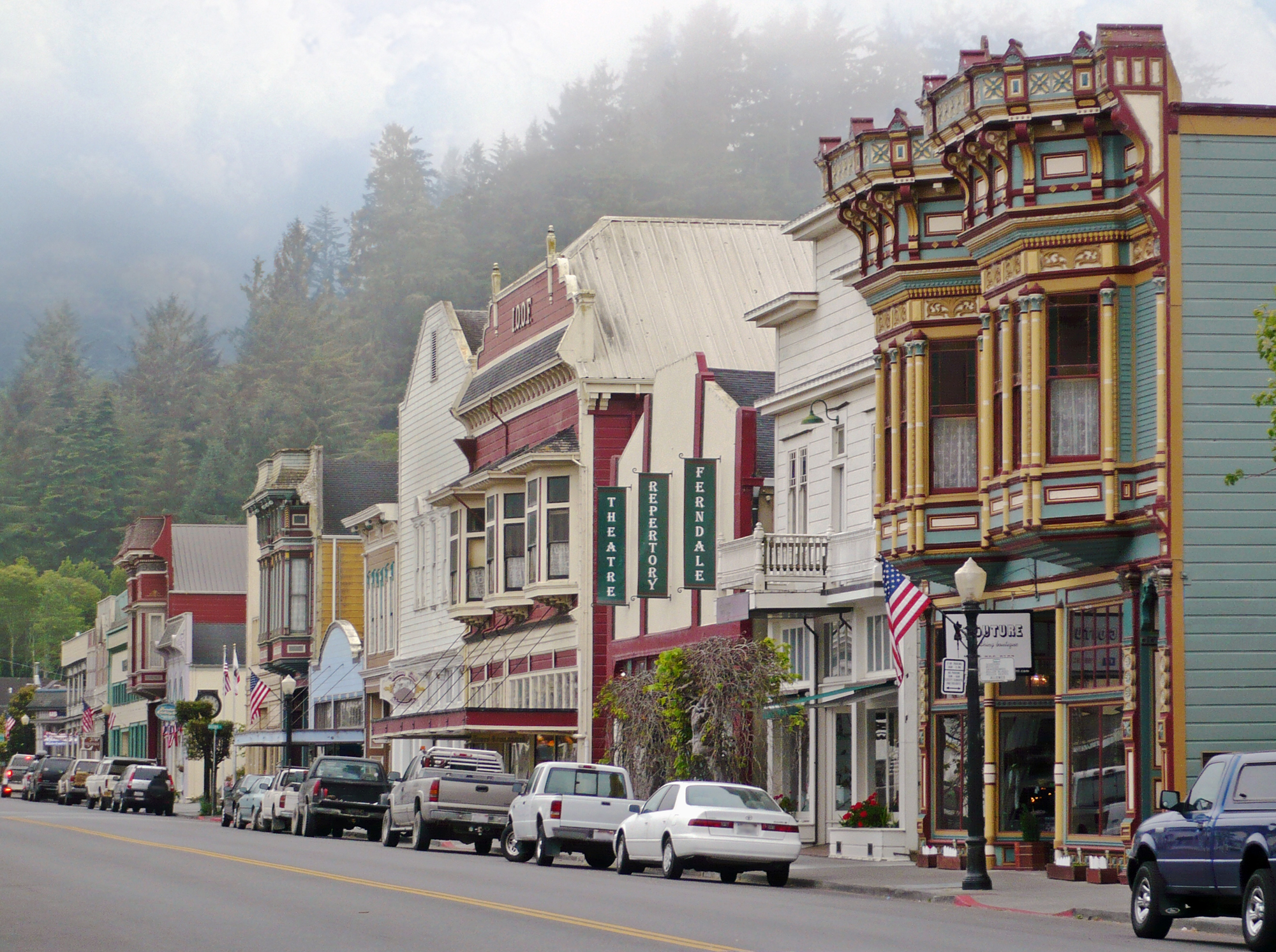 It shows the well-preserved Victorian architecture in the Main Street Historic District in Ferndale, California. First visible polychrome building with flag is 475 Main Street, then 455 Main, and the Ferndale Repertory Theater at 441-451 Main. This image was taken at the request of Ferndale Chamber of Commerce and used on a brochure published by the Chamber in 2015.